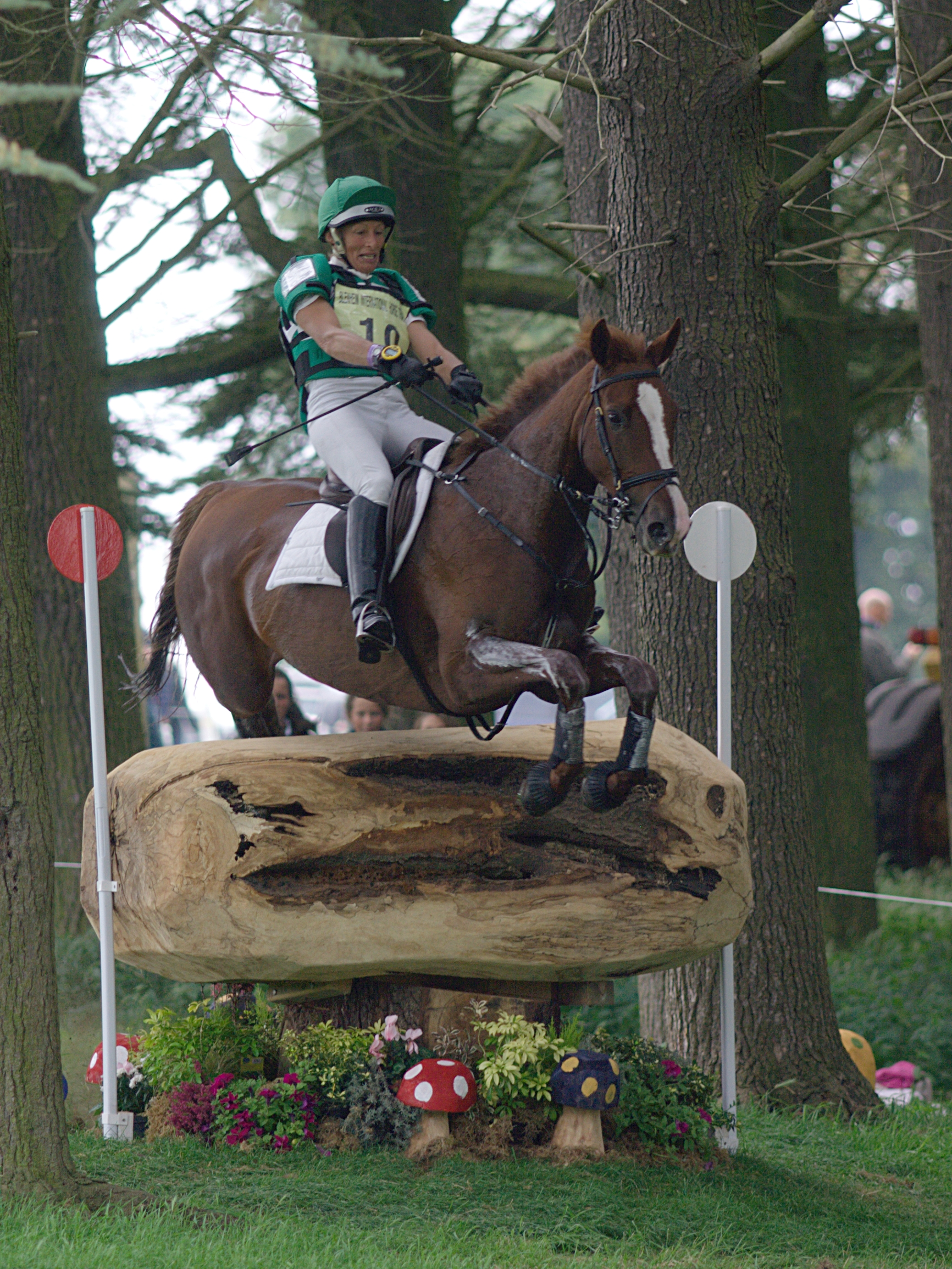 Mary King, riding King's Gem, clears the Darbys Legal Leap at Blenheim Horse Trials 2007.